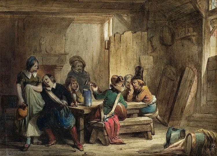 Secene in a Tavern